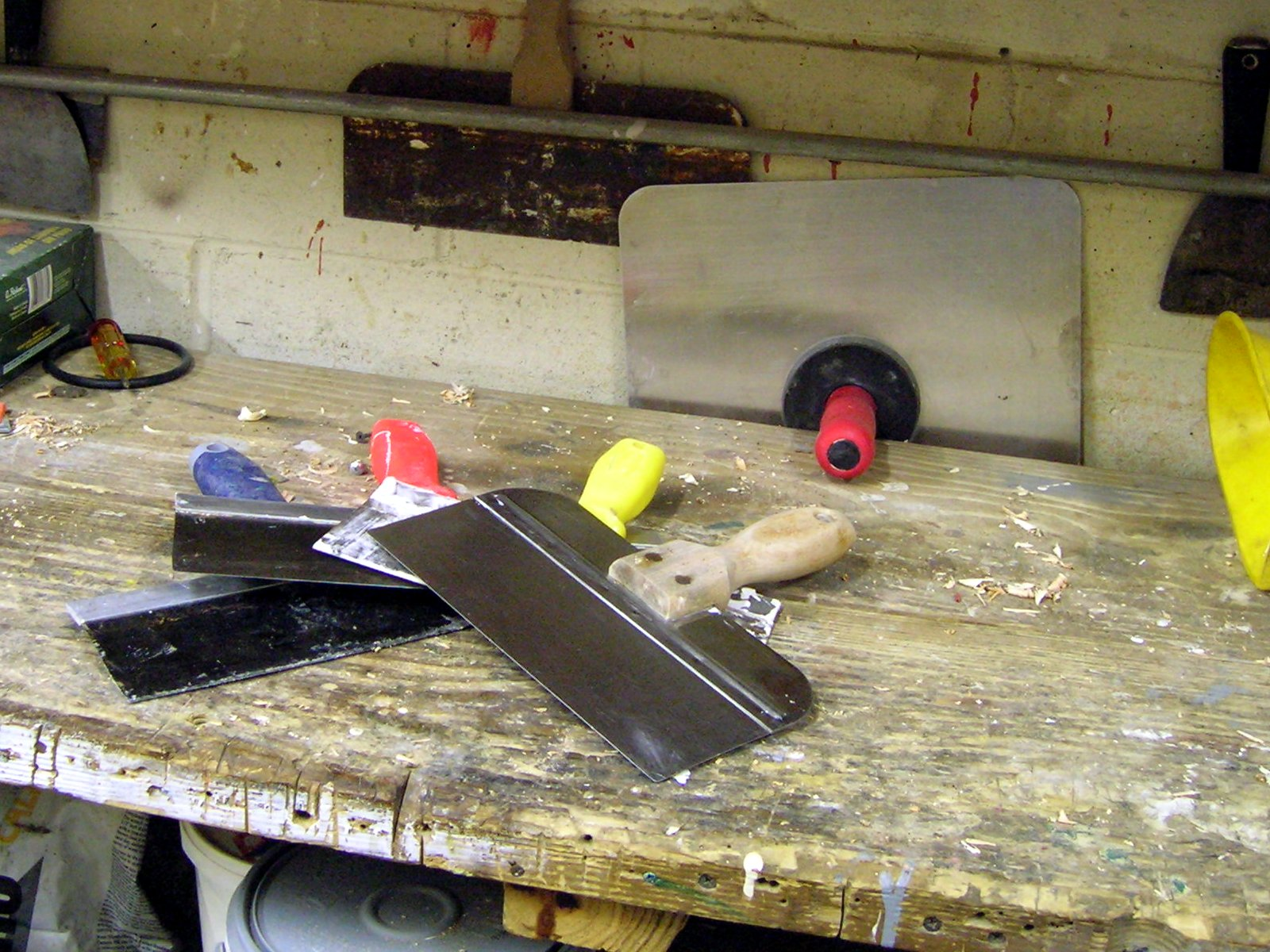 Various mud knives, with plaster hawk in background